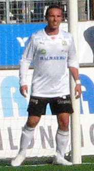 Cropped version of File:Osk-mff-2008.jpg